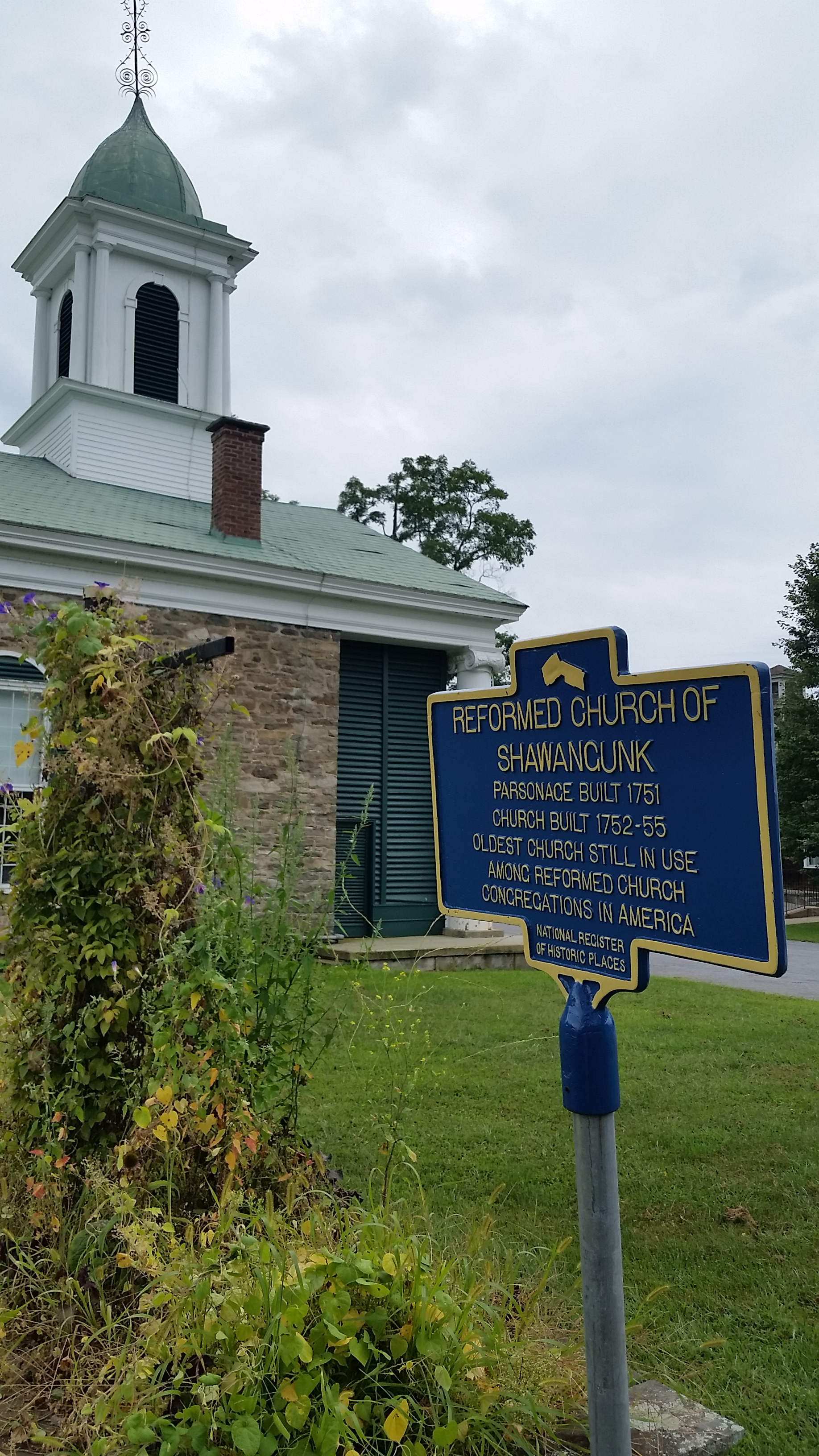 New York state historical marker for the Reformed Church of Shawangunk (east side of the marker)